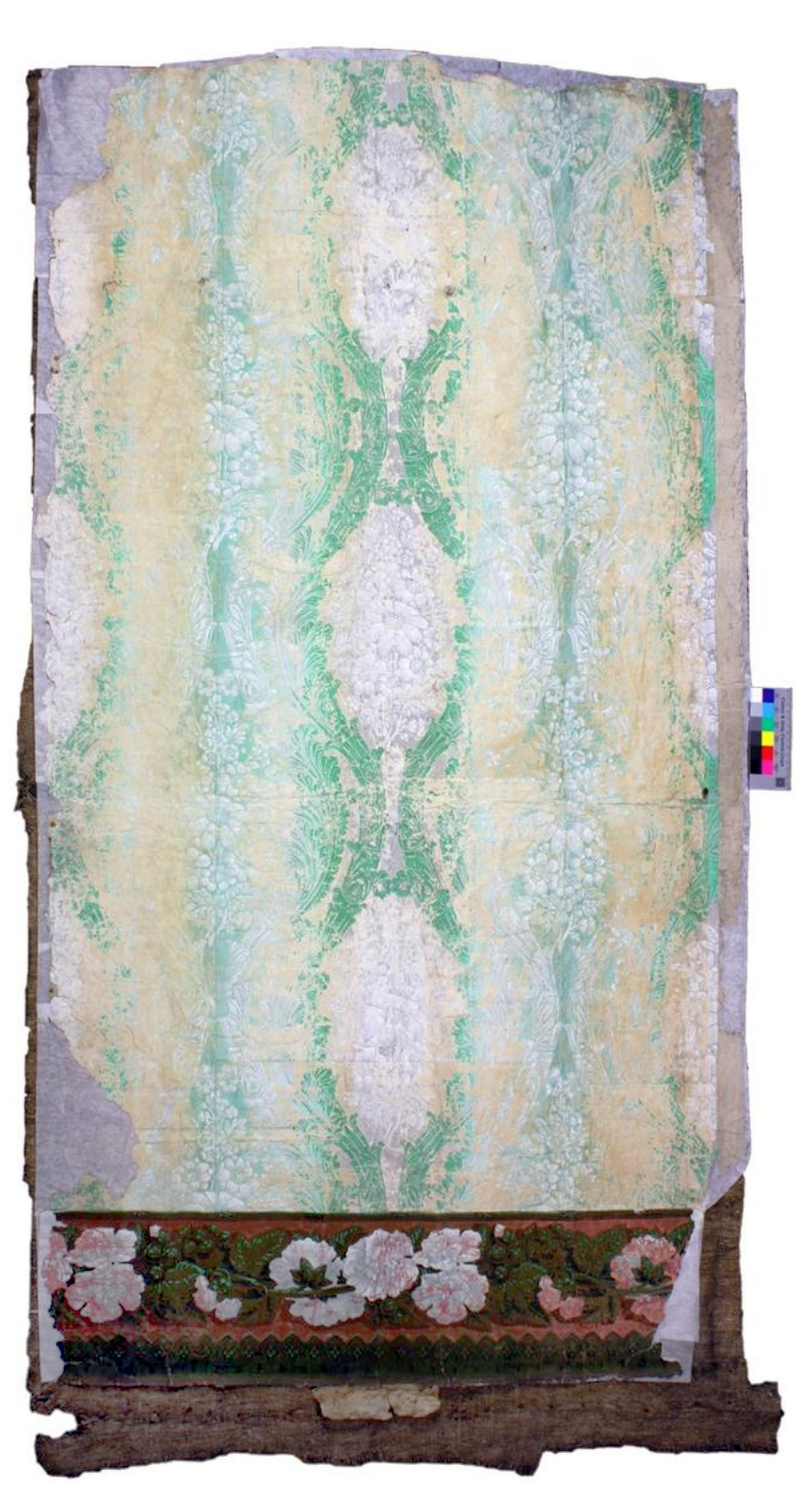 Wallpaper, about 1830, possibly French Museum für Hamburgische Geschichte, item number 2010-22-B Paper on Hessian fabric, velour ornament (hemp fibres)